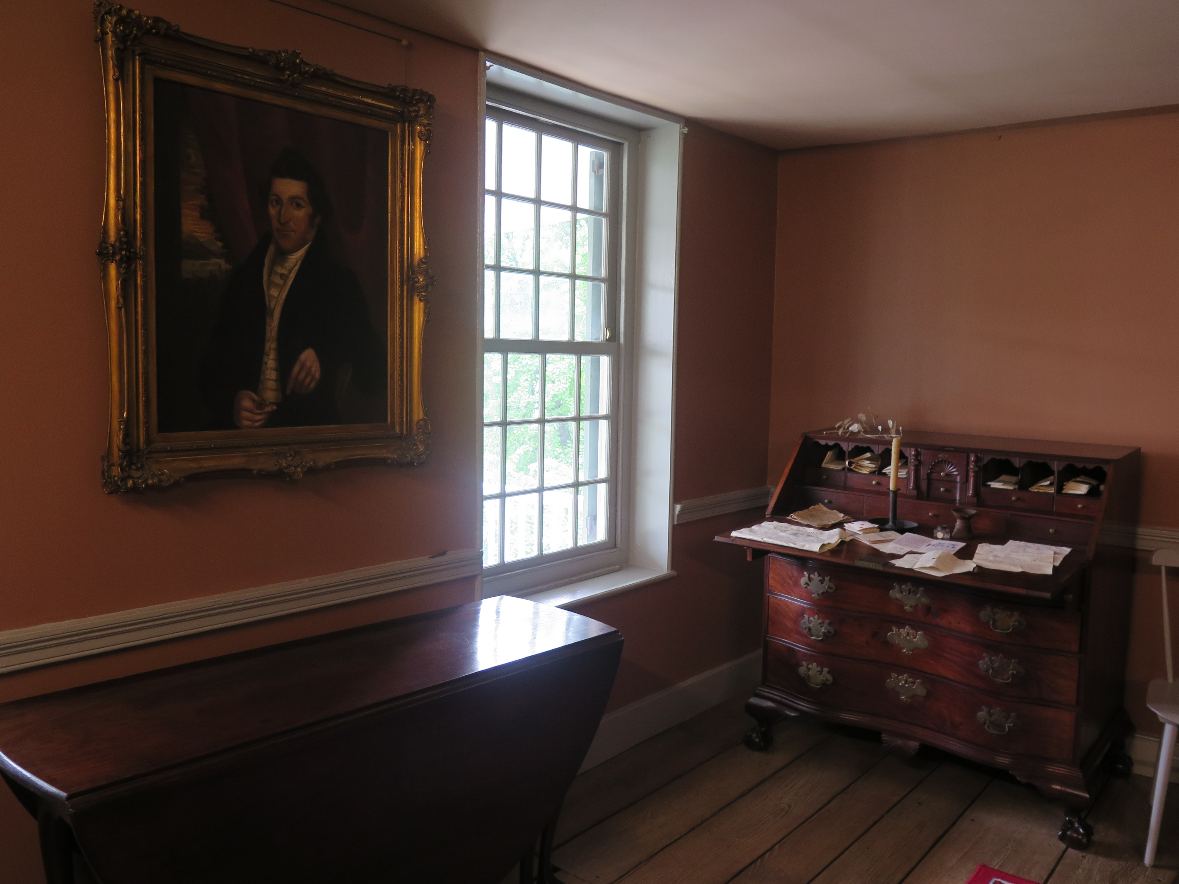 Site: Dyckman Farmhouse and Museum